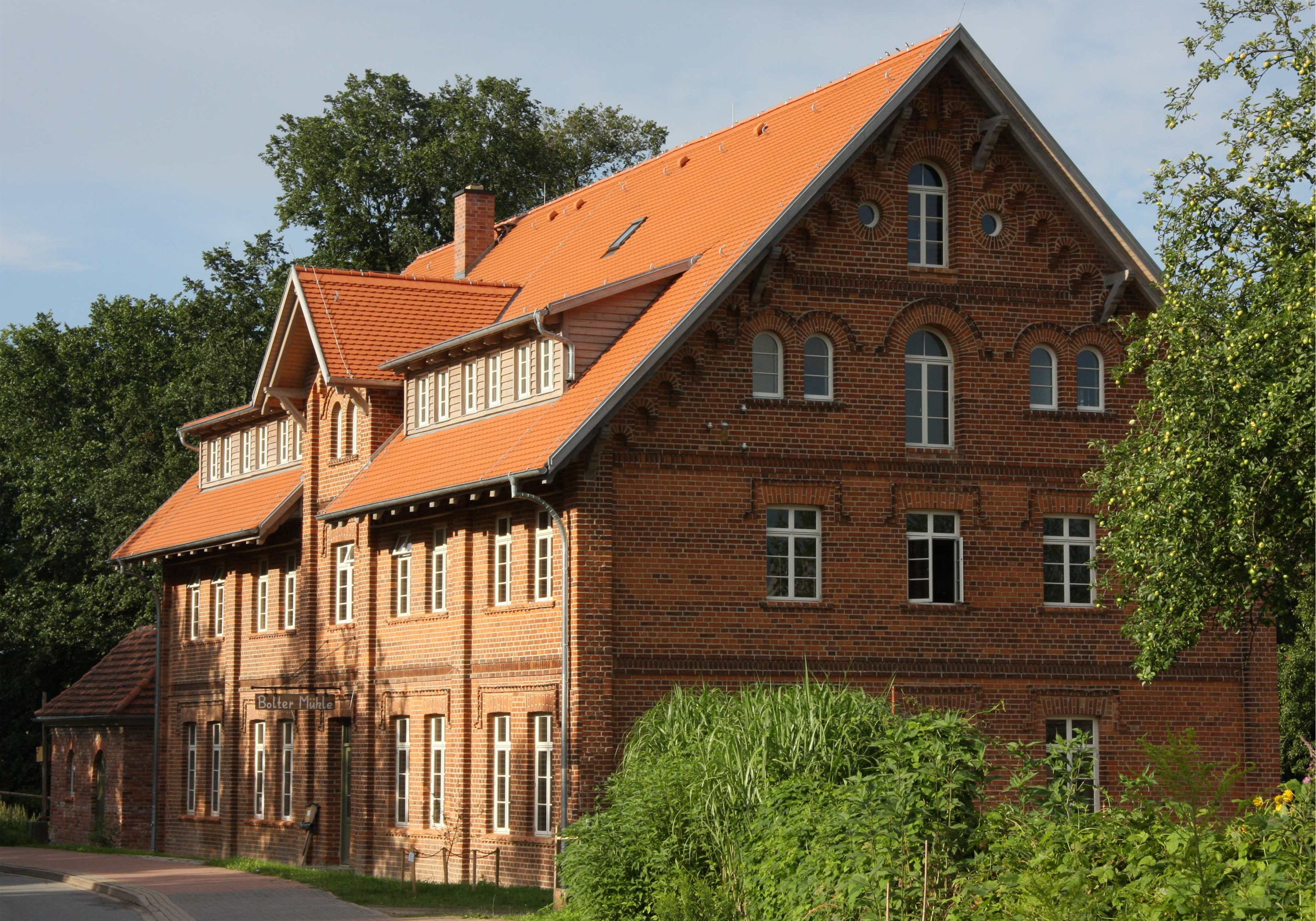 Bolter Mill